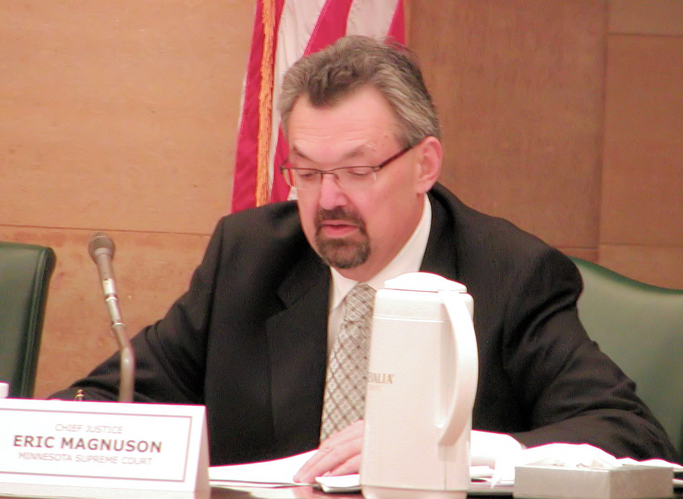 Eric J. Magnuson, Chief Justice of the Minnesota Supreme Court (2008–2010), on the Minnesota State Canvassing Board for the United States Senate election in Minnesota, USA.